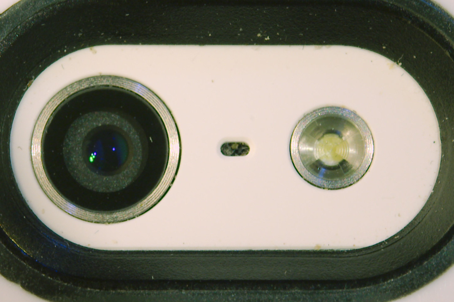 Camera and flash of the iPhone 5. The camera is enclosed in a case which explains the thick bezel.